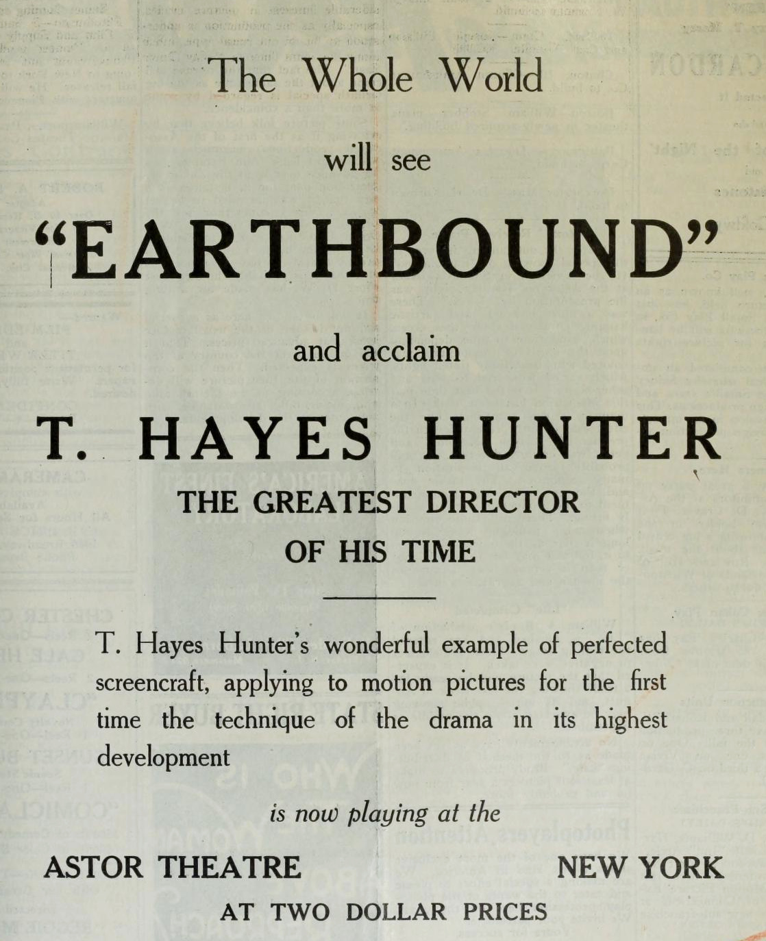 Director T. Hayes Hunter in advertisement for the American drama film Earthbound (1920).